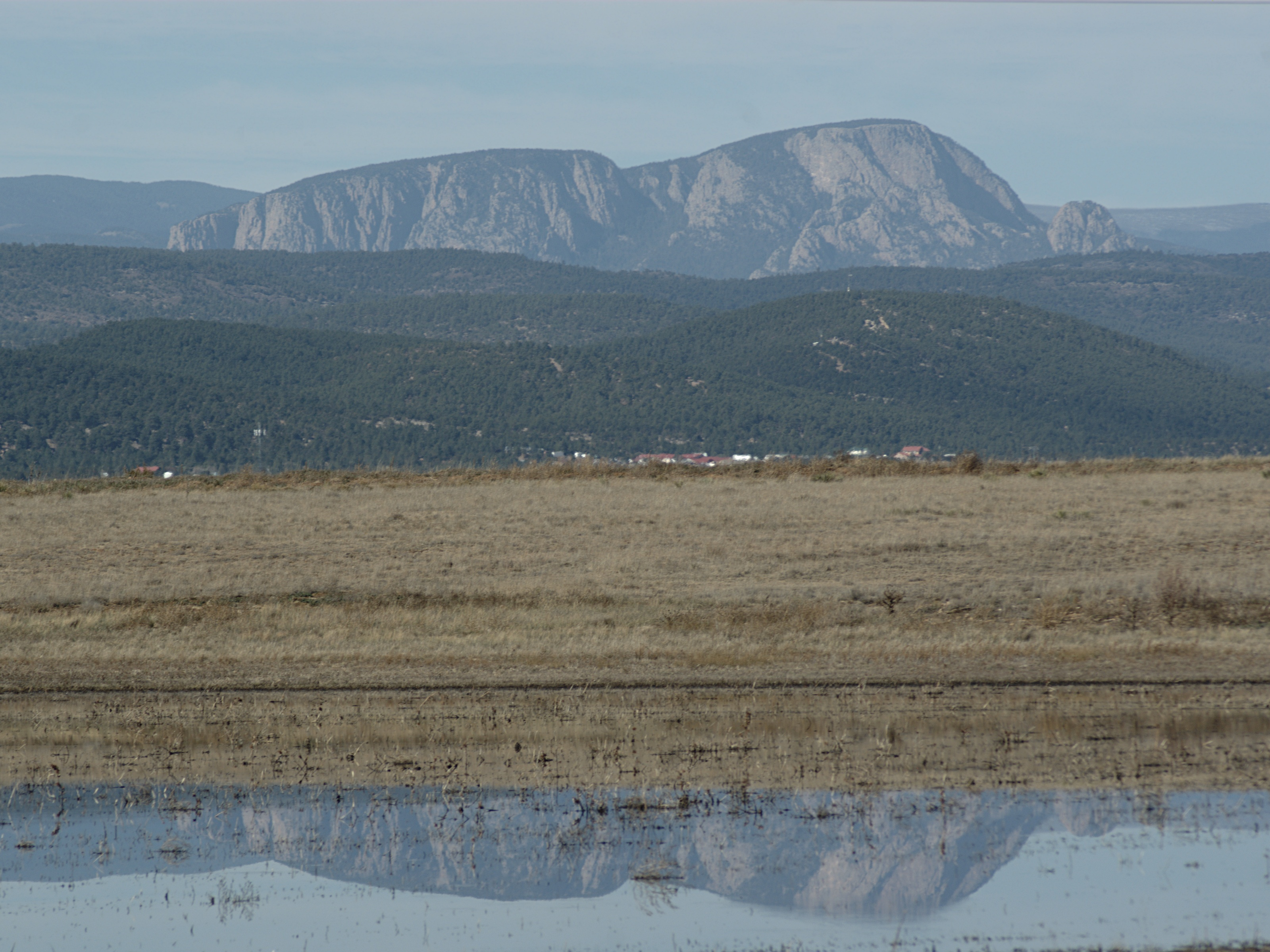 Hermit's Peak seen from Las Vegas National Wildlife Refuge, Las Vegas, New Mexico.